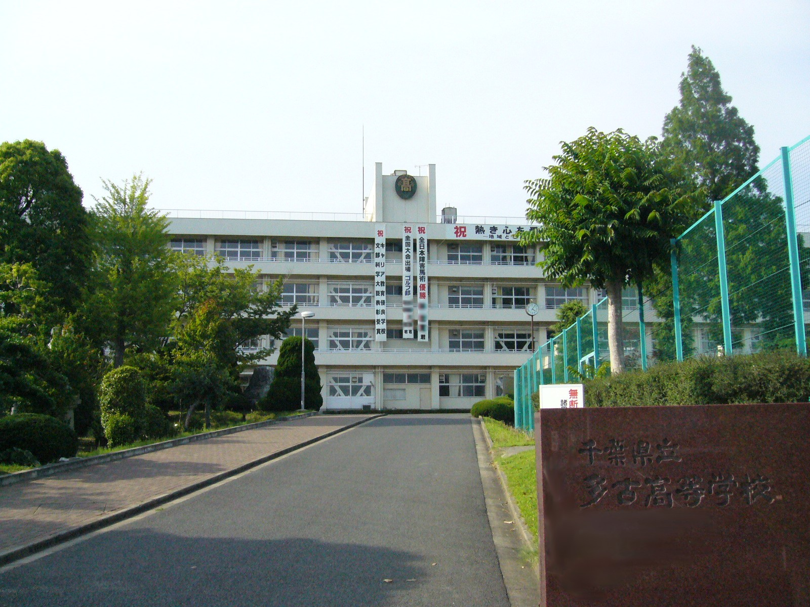 tako-high-school,tako-town,japan